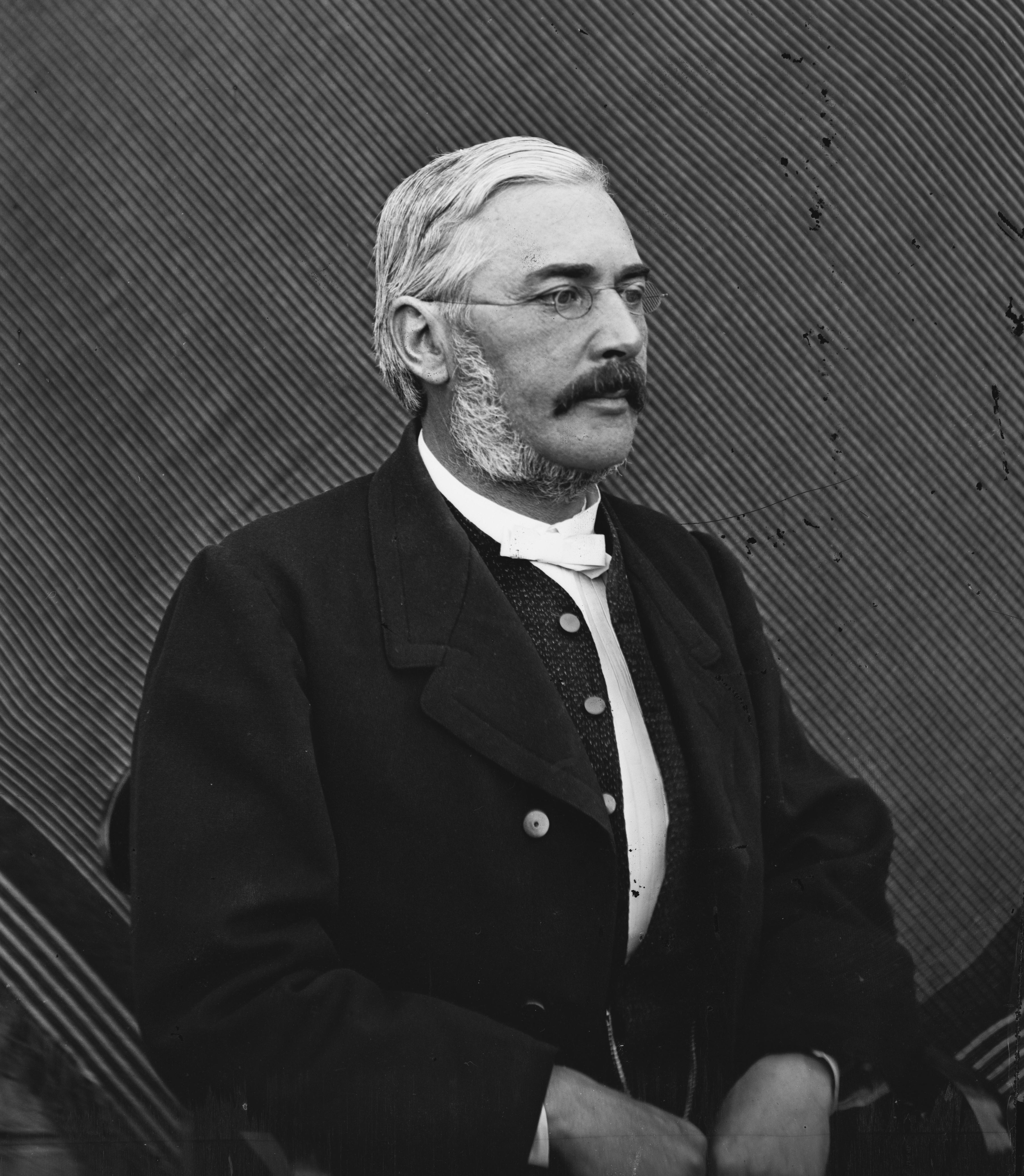 Fabian Gustaf Norström (1822-1898), headmaster at Jønsberg landbruksskole 1847-71